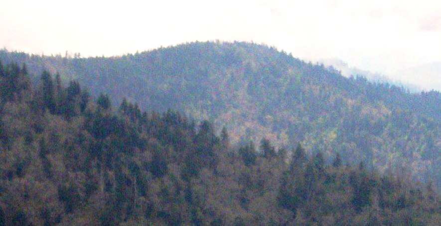 Mount Sequoyah (el. 6003ft/1956m), viewed from Mount Guyot in the Great Smoky Mountains, in the southeastern United States. This view is via one of several "windows" in the foliage along the Appalachian Trail on Guyot's southwest slope.